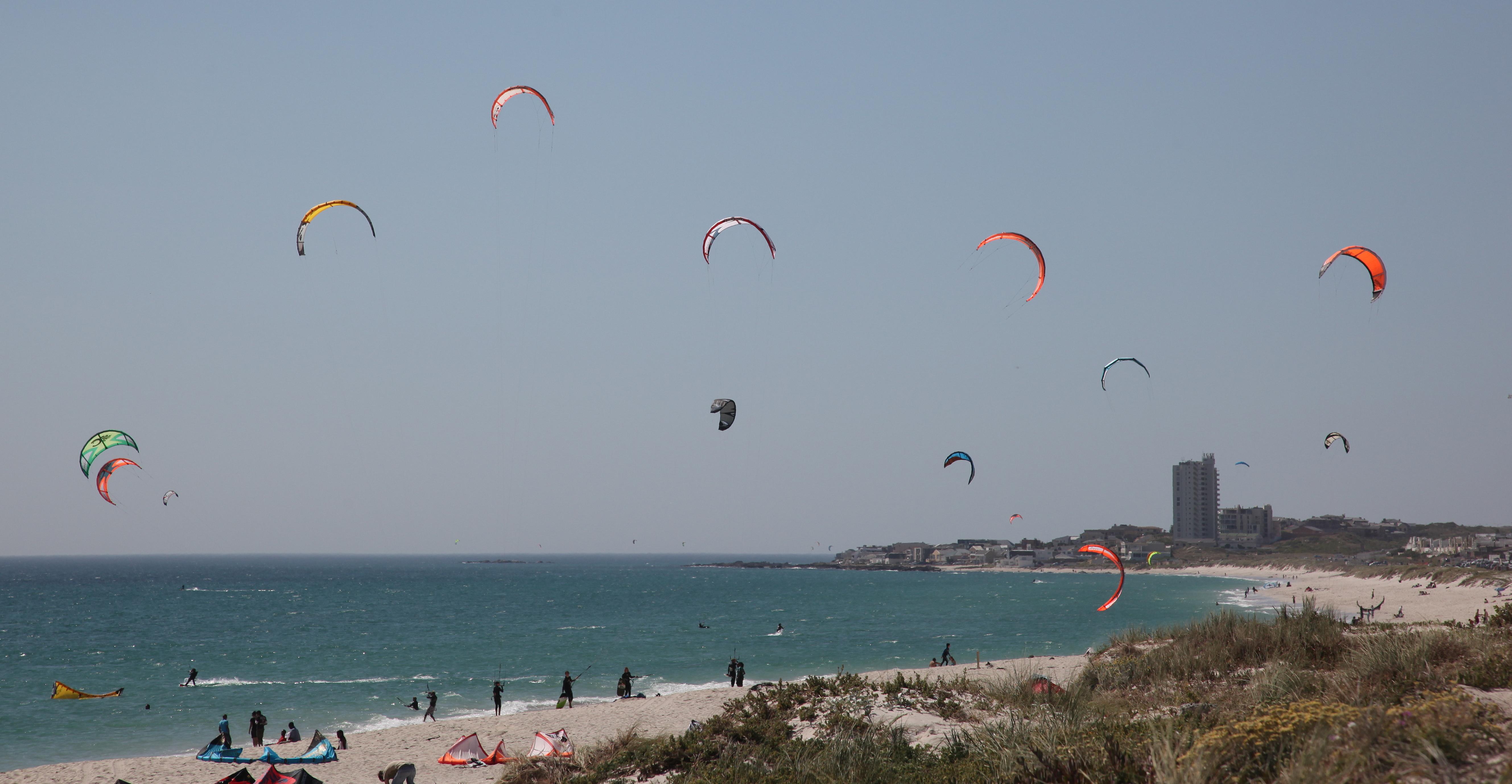 Kite surfers near Bloubergstrand, in Table Bay, South Africa